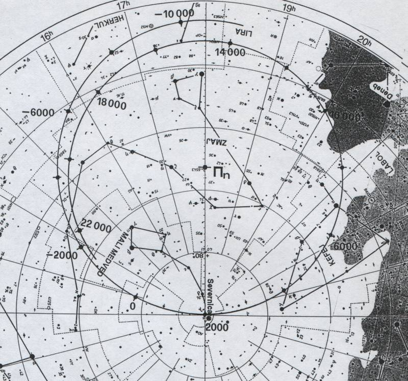 Moving of a North Pole because of a general precession. At the moment the North Pole is near Polaris. Transferred from sl.wikipedia to Commons. The original description page was here. All following user names refer to sl.wikipedia.